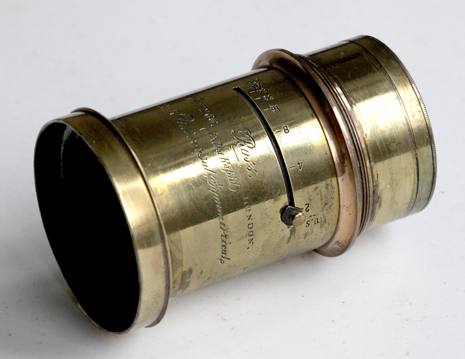 The serial number dates the lens to about 1880. It is graduated in US stops (Uniform System) . The largest aperture is US 2 which is equivalent to f/5.6. The lens element layout is of the Rapid Rectilinear type.